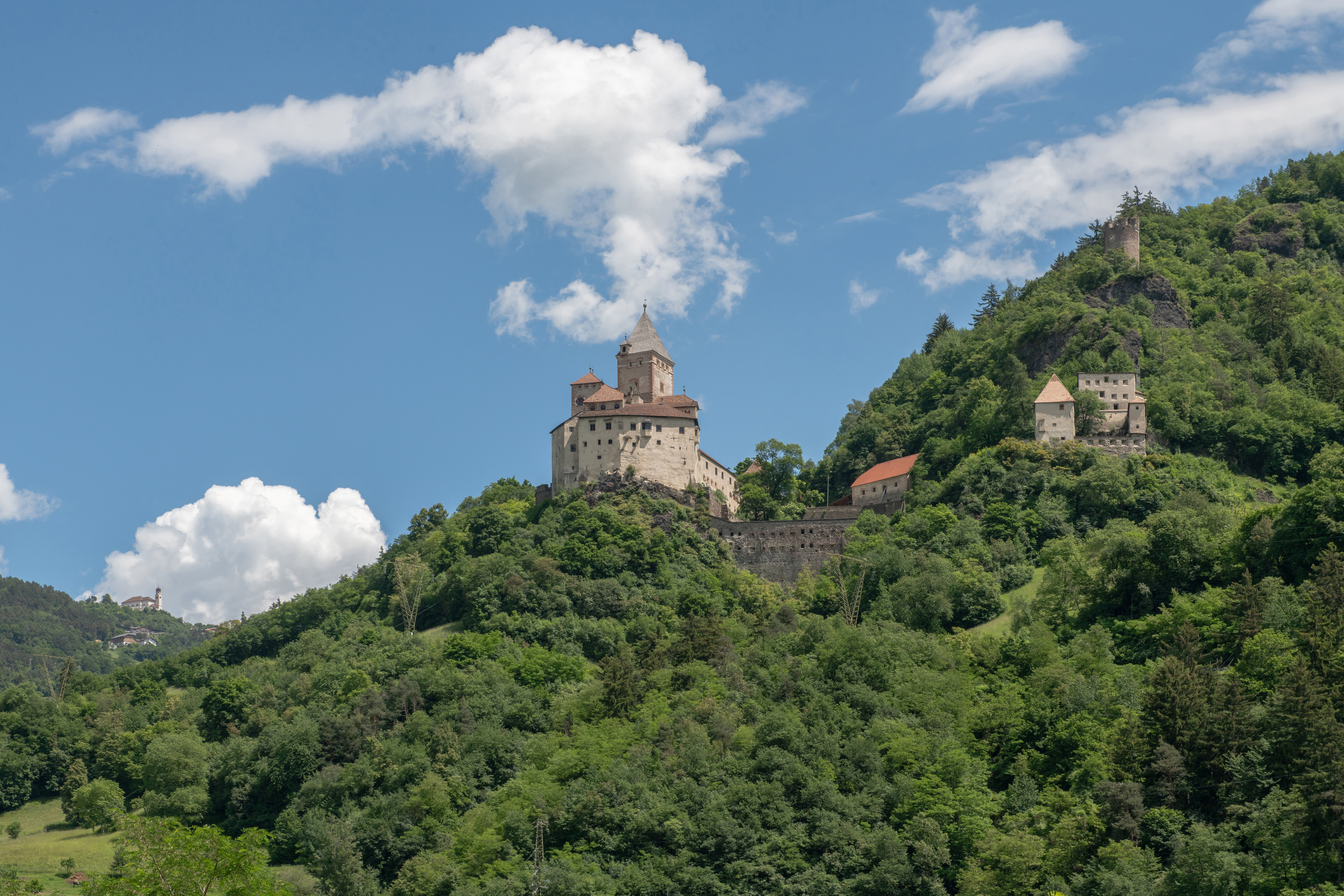 The castle Trostburg in Waidbruck, South Tyrol - West face